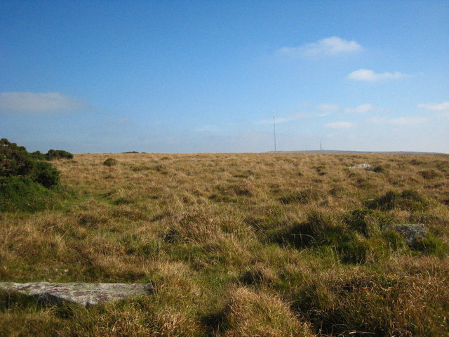 Stone circle on Craddock Moor. Fairly clear on Google Earth but not so on the ground! The stones are almost buried and, in the absence of GPS, it requires careful compass bearing and pacing to locate it. The transmitter mast on Caradon Hill can be seen in the distance.